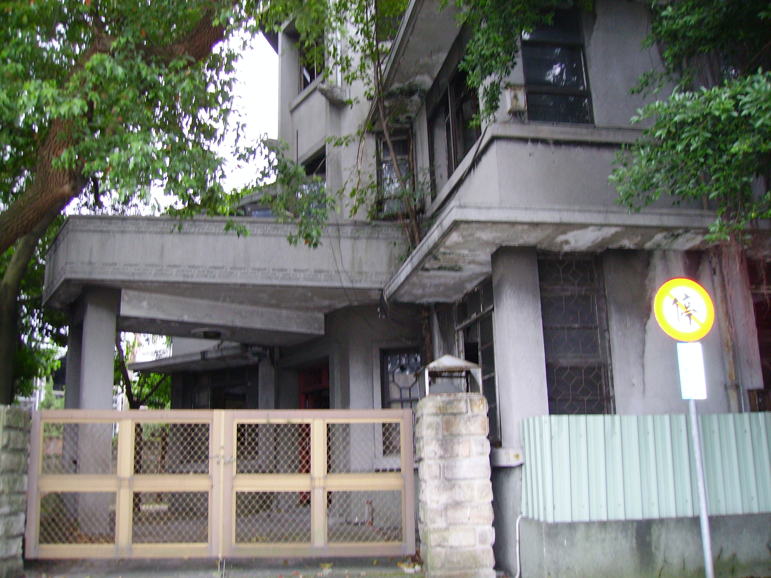 Taipei Yen Chia-kan House, April 4, 2006